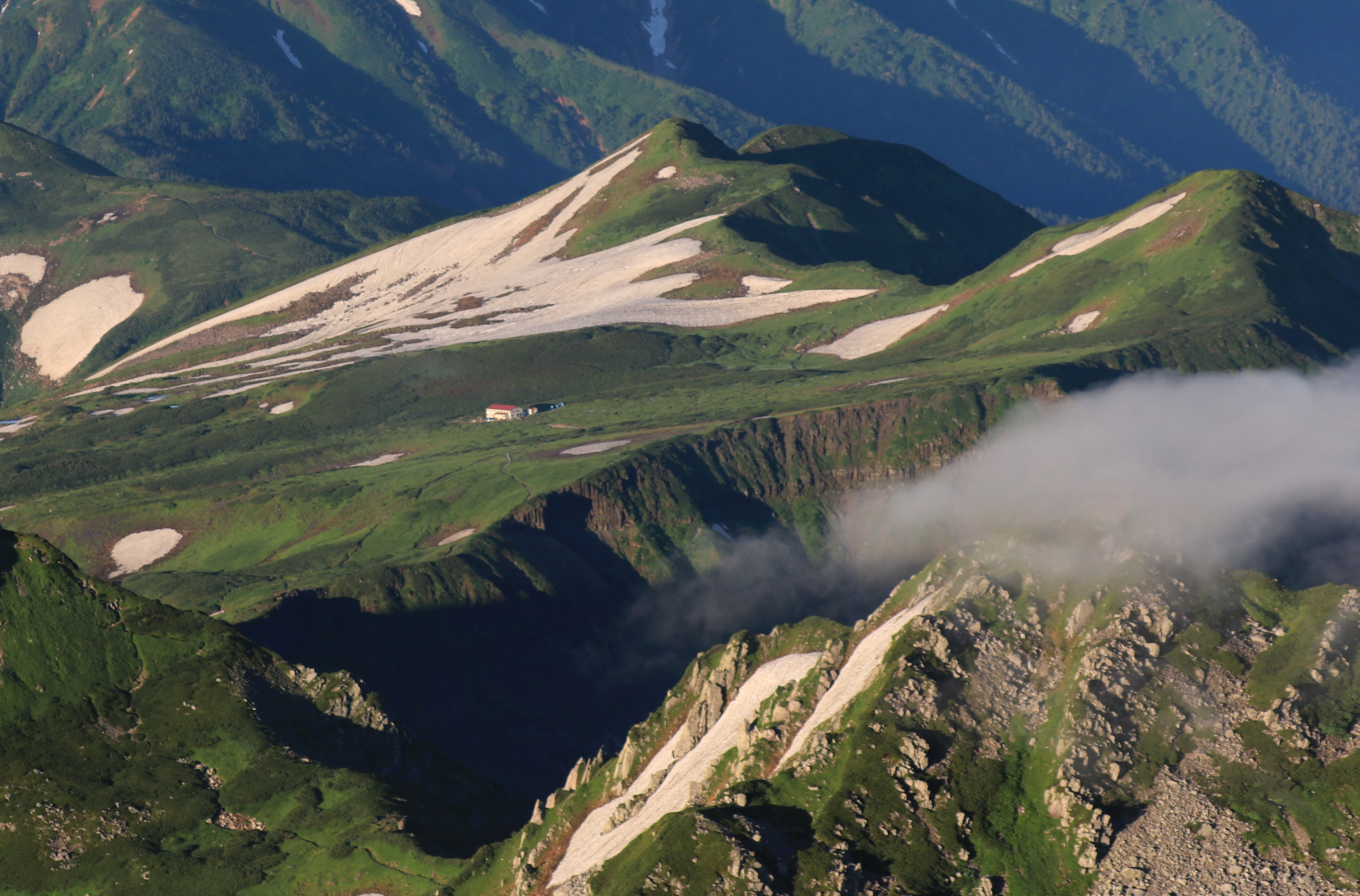 Goshikigahara seen from Mount Tate in Toyama Prefecture, Japan.